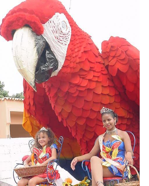 Day of the flower festival, Yagua_(Venezuela)